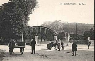 The station of Cherbourg with its large windows in 1920